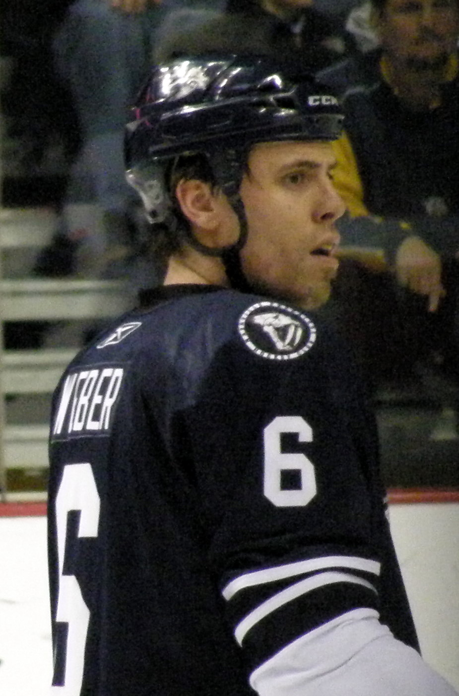 6, Shea Weber, D, NSH, San Jose Sharks at Nashville Predators, February 6, 2010